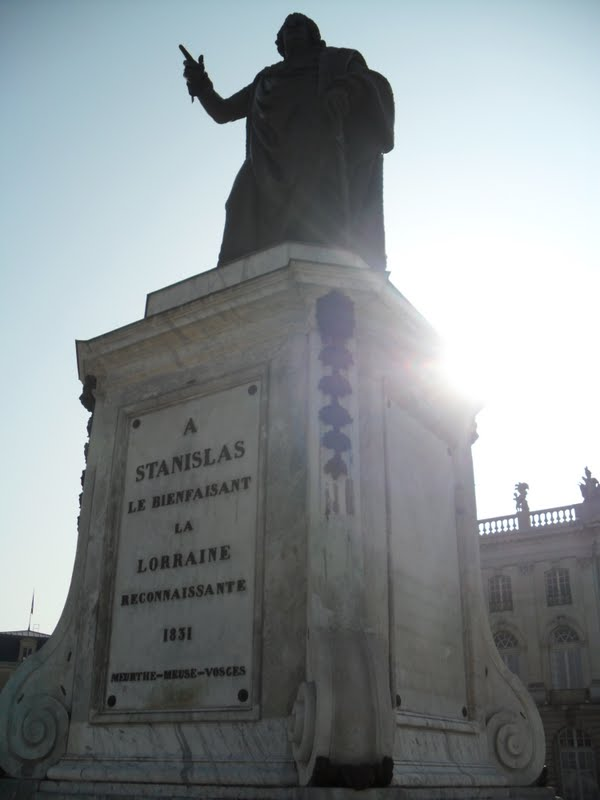 Stanislaw 02